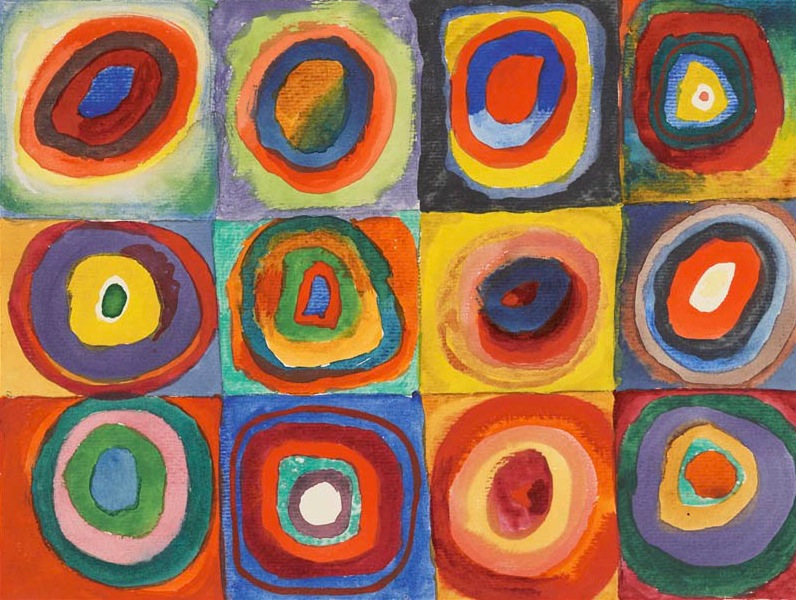 Color Study, Squares with Concentric Circles, sm, Munich, Stadtische Galerie in Lenbach, Germany